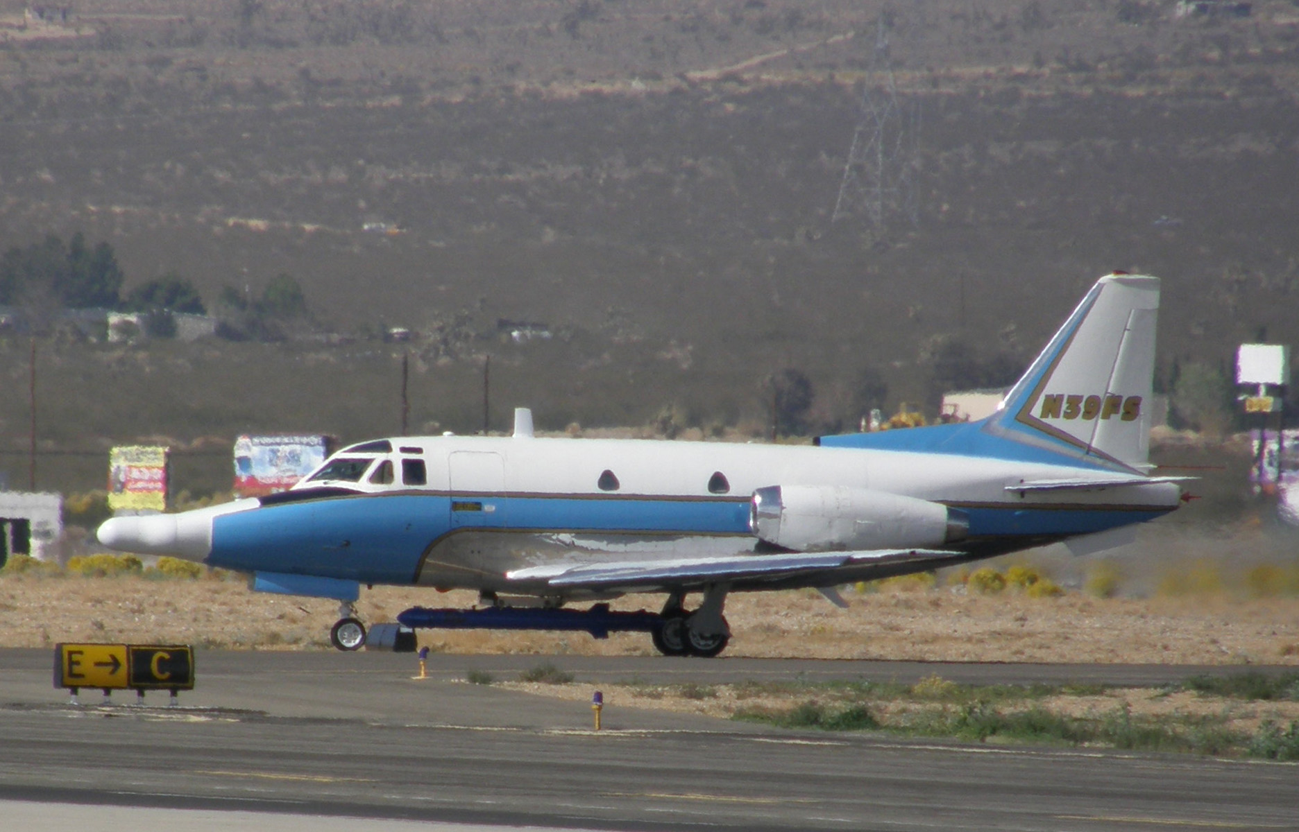 BAE Systems Flight Systems T-39A N39FS flight test aircraft with payload, Mojave Airport.